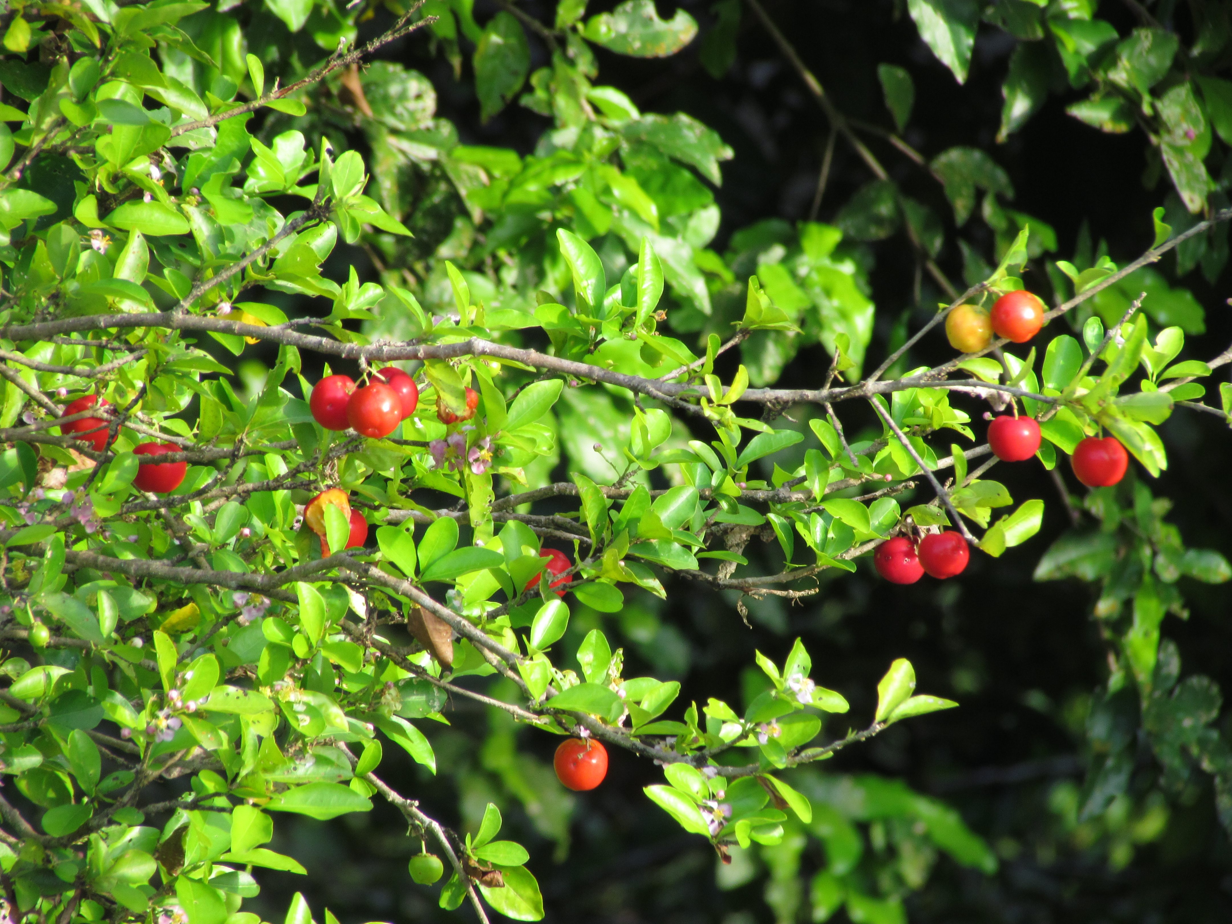 Malpighia emarginata